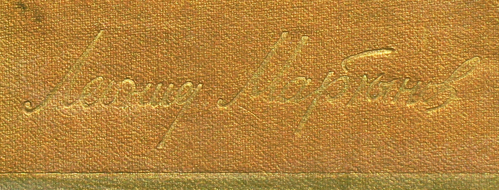 Soviet poet Leonid Martynov signature on his book.